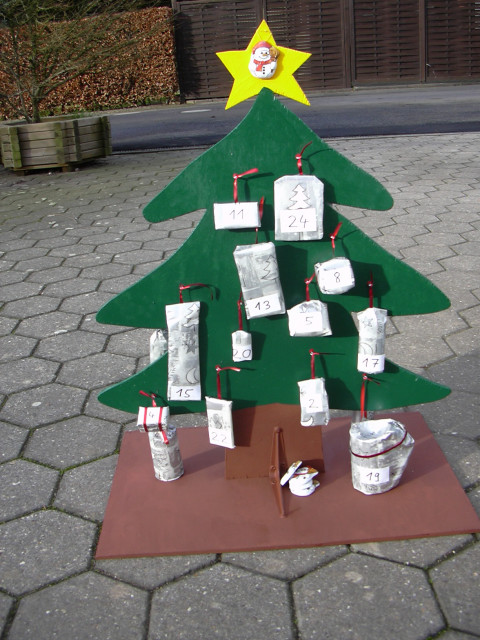 Extensive Advent calendar for my girl friend near completion